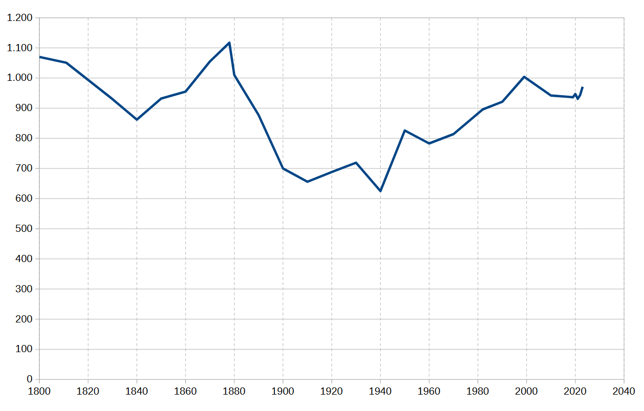 Historical population Schiermonnikoog 1800–2018